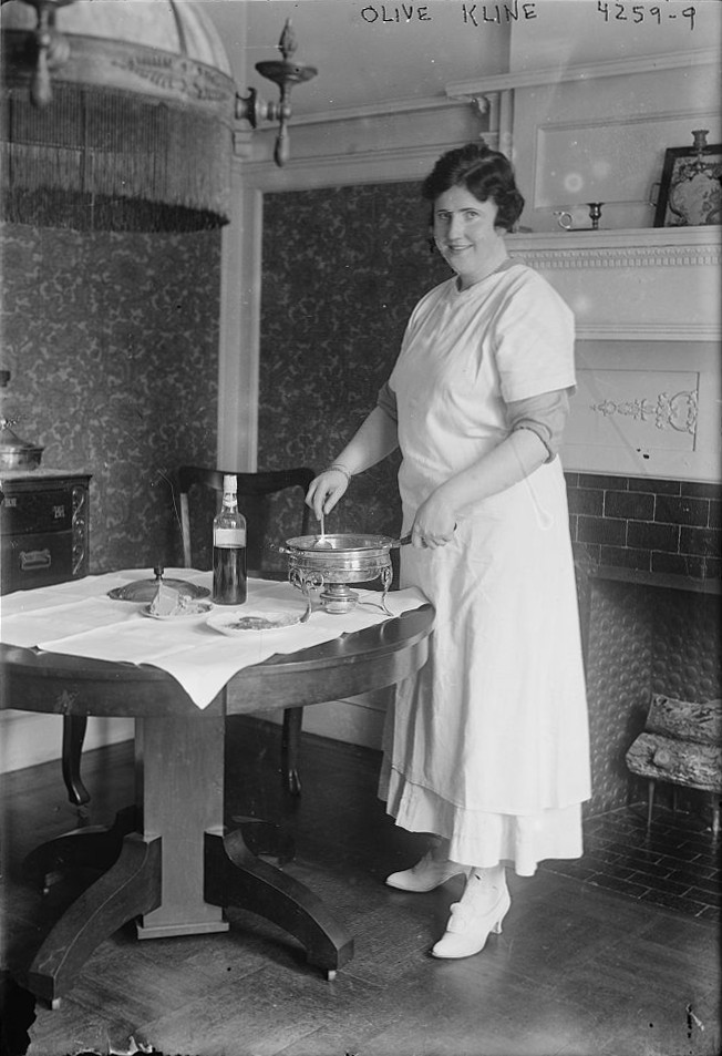 Olive Kline in 1917 at her home